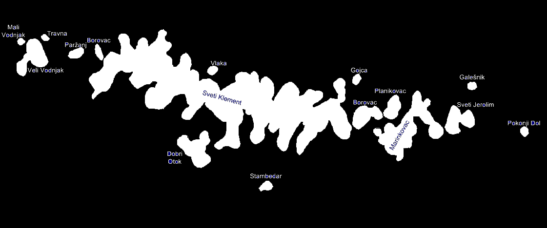 A simplified map of Paklinski archipelago